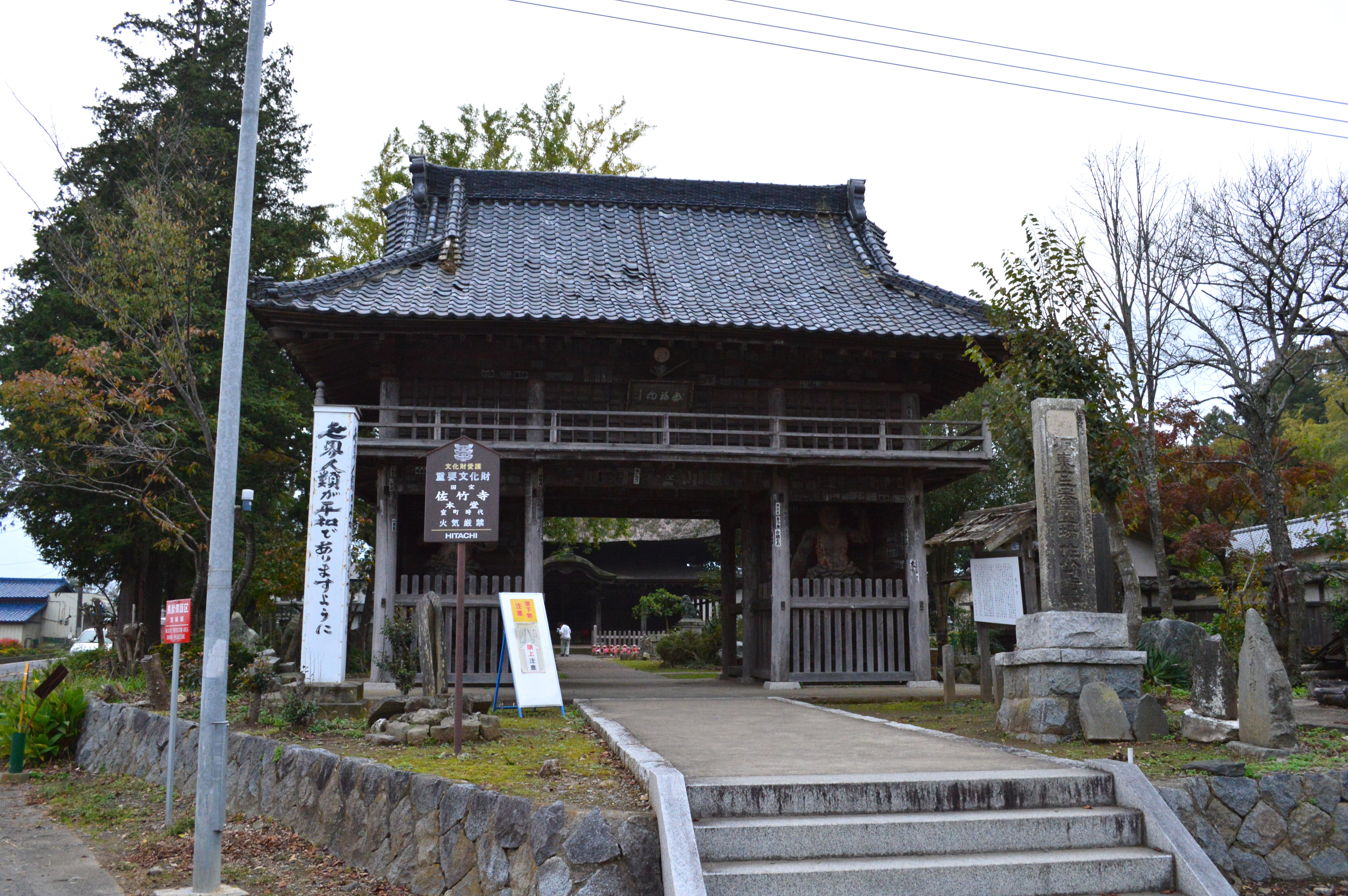 Sanmon (Niōmon) gate of Satake-ji temple in Hitachiōta, Ibaraki